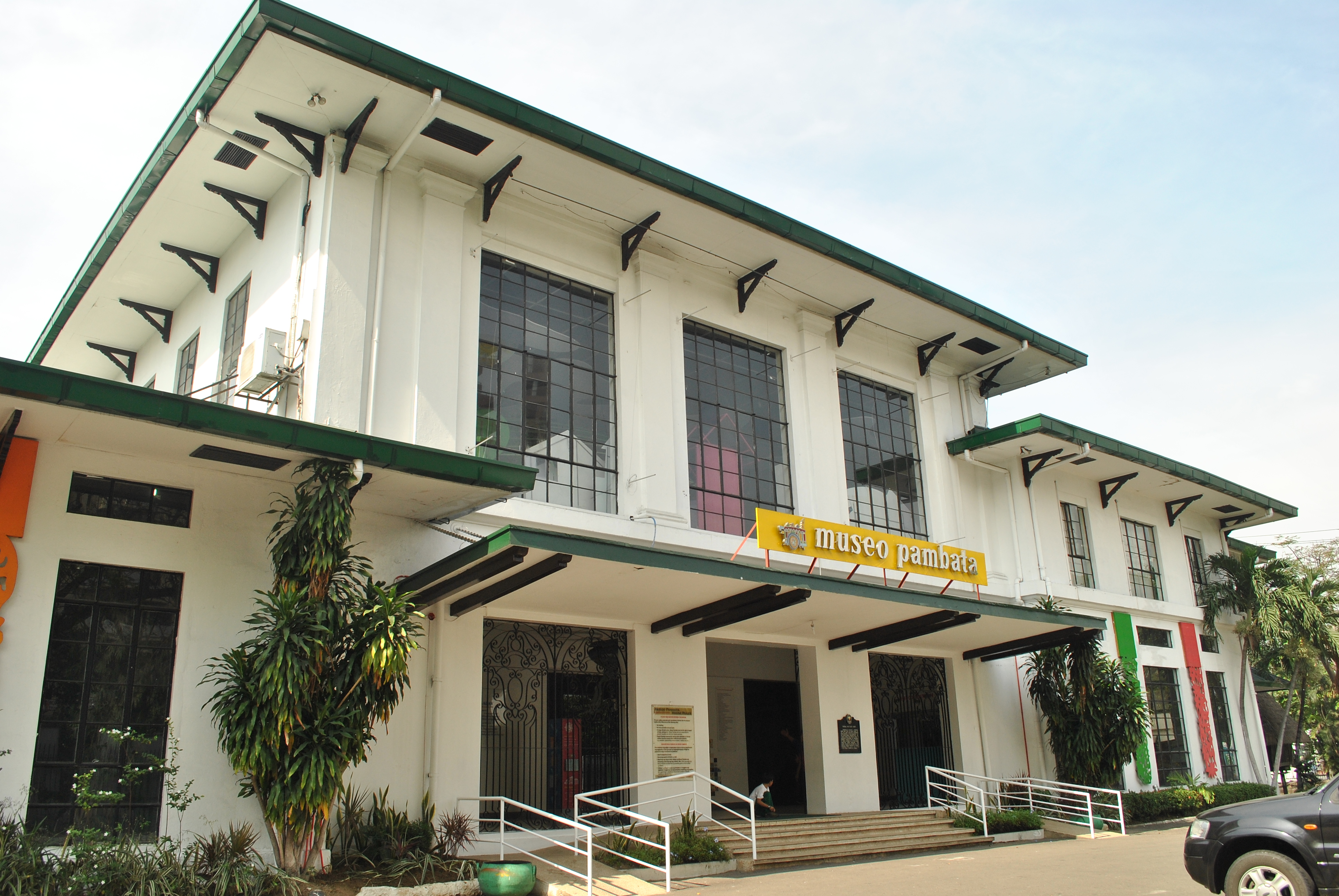 The Museo Pambata (Children's Museum or Museum for Children) — a child-oriented museum in Ermita, Manila, the Philippines.